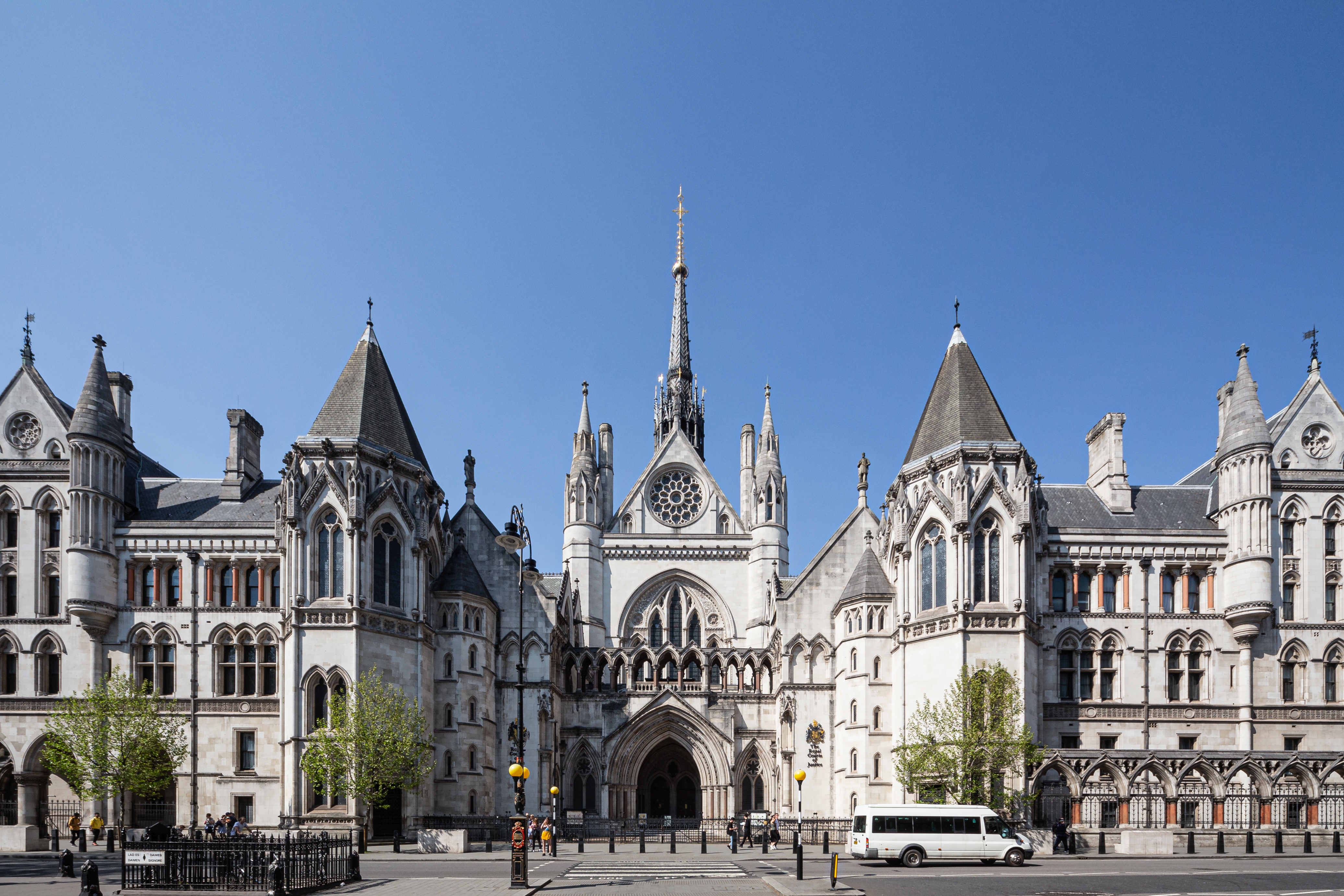 Royal Courts of Justice main gate.